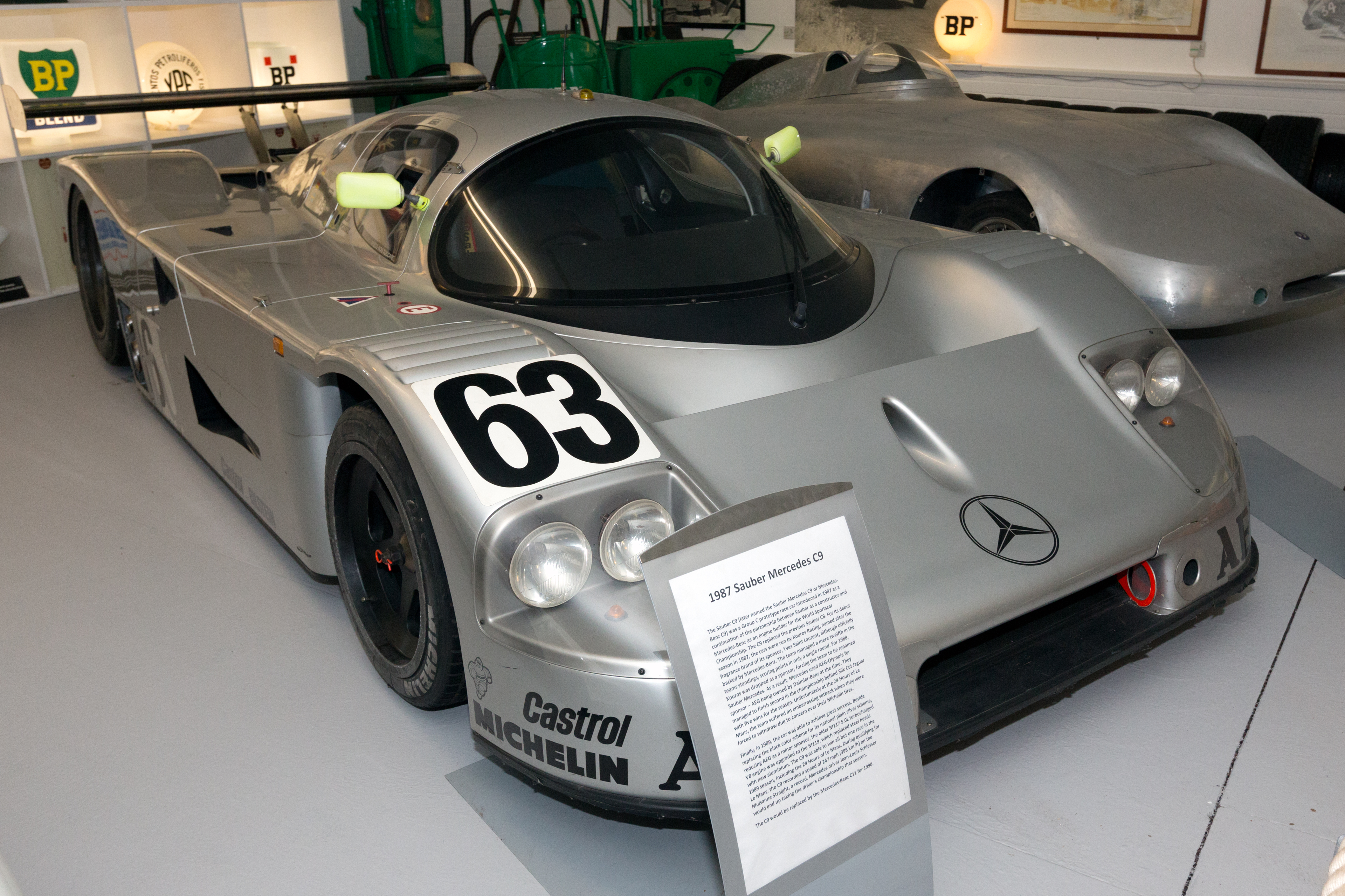 1989 Sauber-Mercedes C9